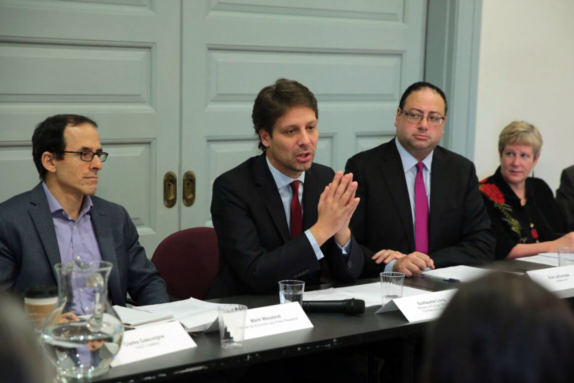 Mark Weisbrot, Guillaume Long and Eric LeCompte at a panel of Global Alliance for Tax Justice